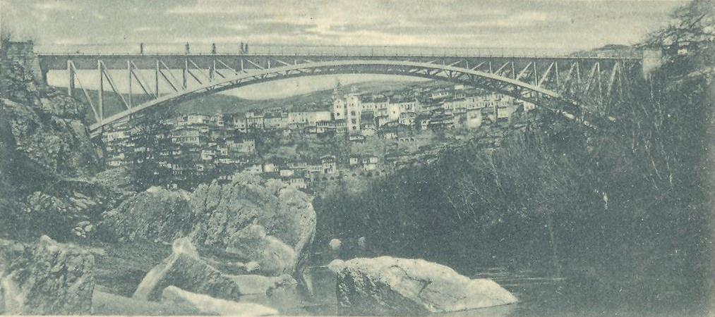 Panorama of Tarnovo with the Stambolov bridge, Bulgaria